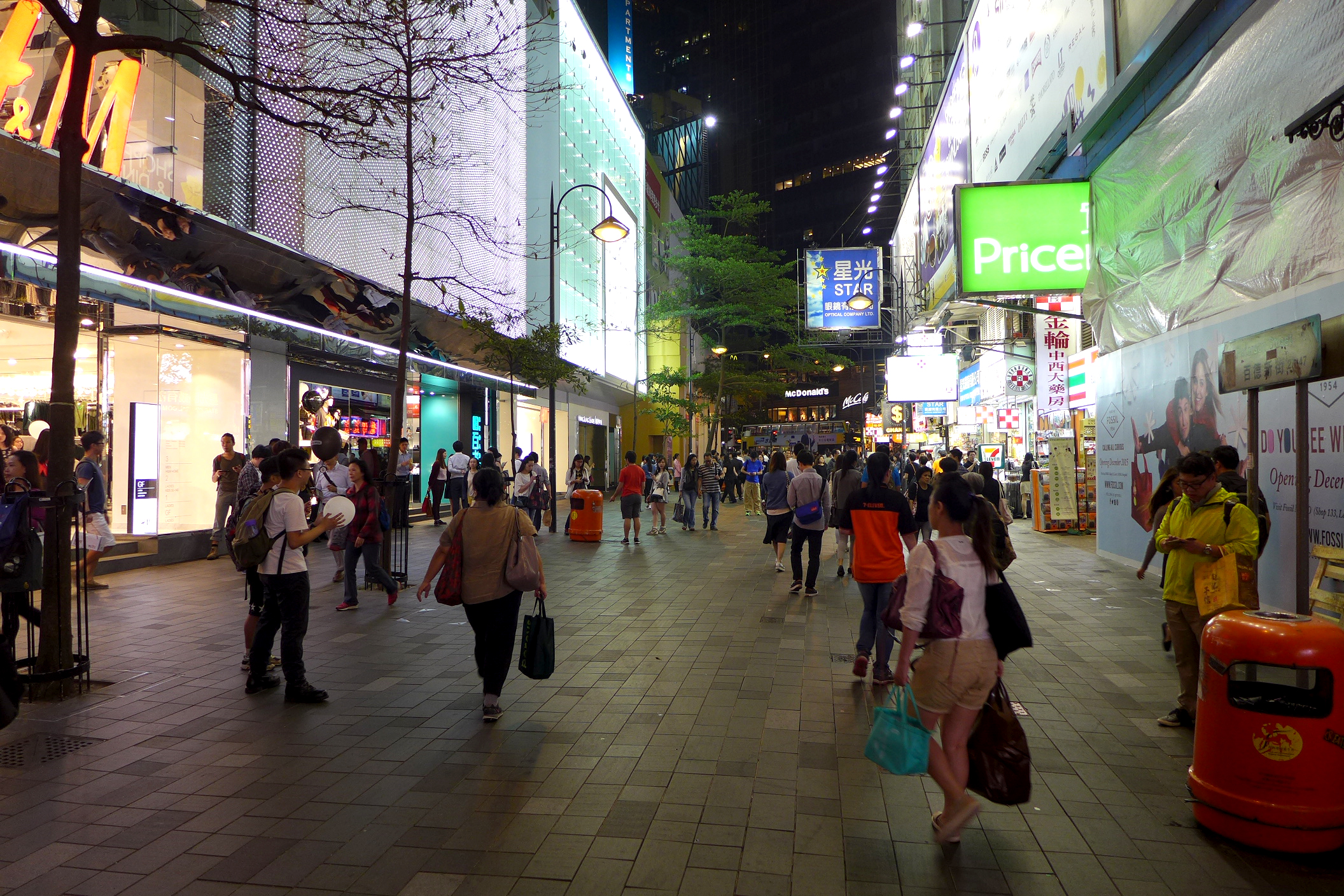 Paterson Street